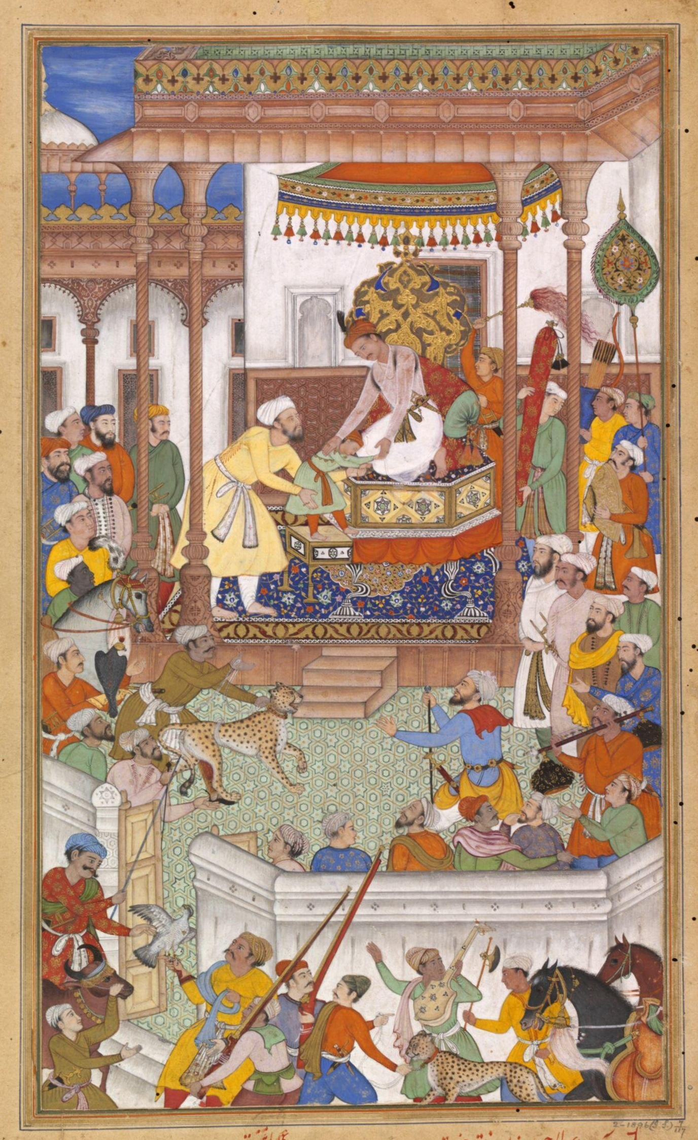 Young (four year old) Abdul Rahim Khan-I-Khana being received by Akbar, Akbarnama.